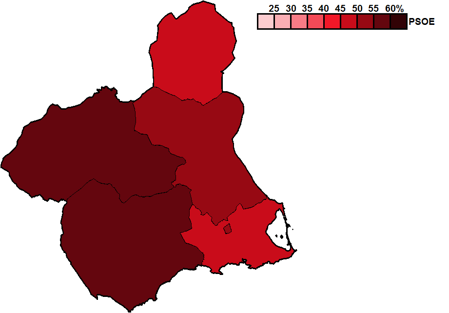 District results for the 1983 Murcian regional election.